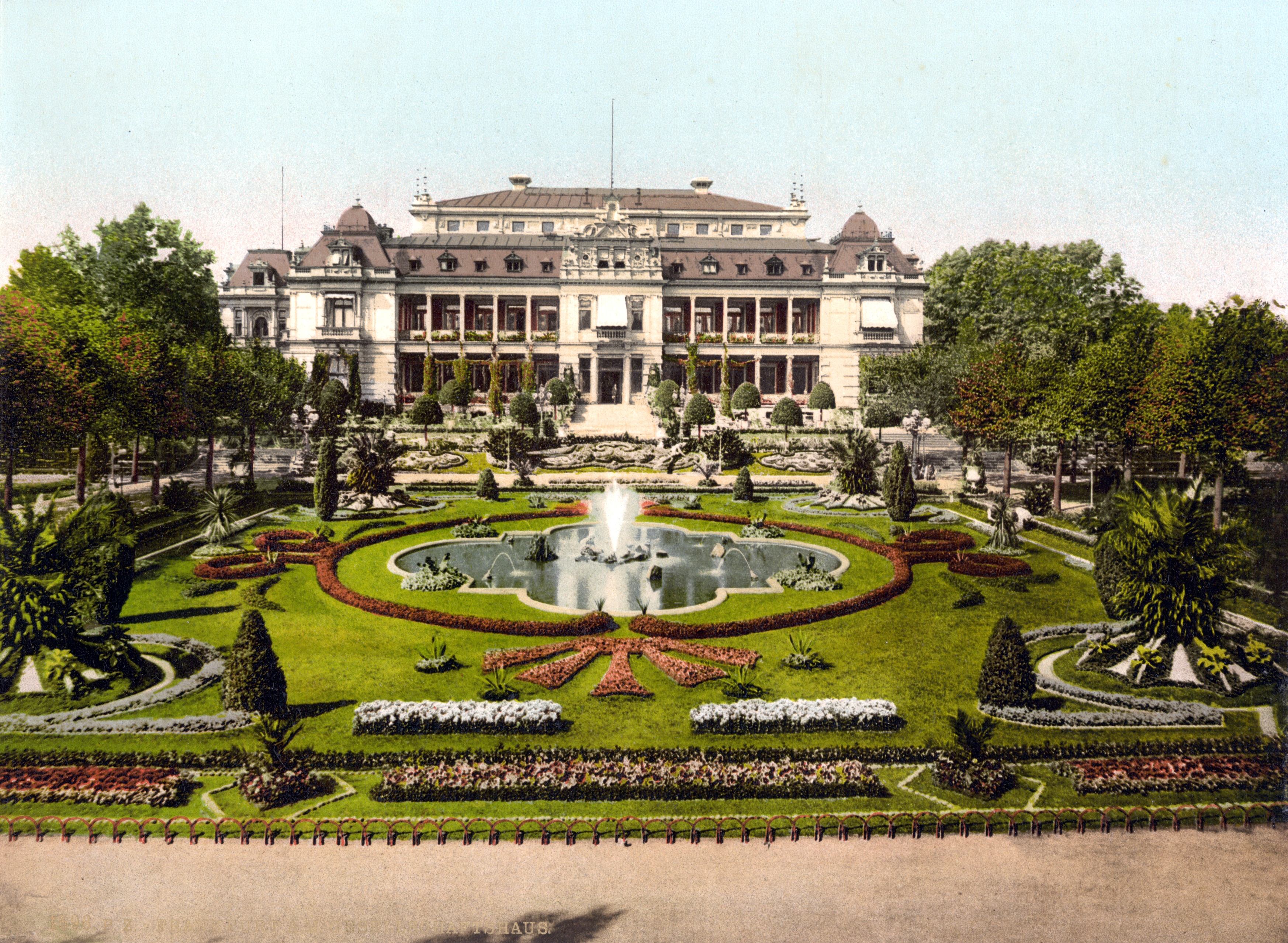 Description: Casino with Palm Garden. The Palmengarten a botanic garden in Frankfurt-am-Main, between ca. 1890 and ca. 1900. Photochrom, color.